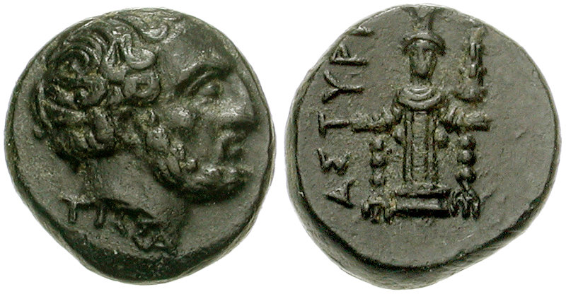 MYSIA, Astyra. Tissaphernes coin. Circa 400-395 BC